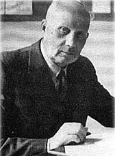 Jan Kwapinski, Polish Politician of Polish Socialist Party (PPS) , Mayor of Lodz in 1939